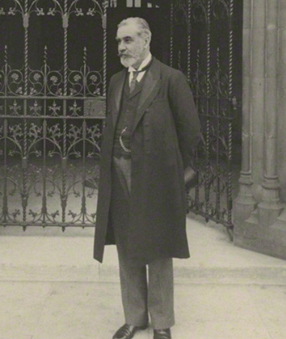 John Hutton, Member of Parliament and owner of Solberge Hall, Northallerton, Yorkshire.